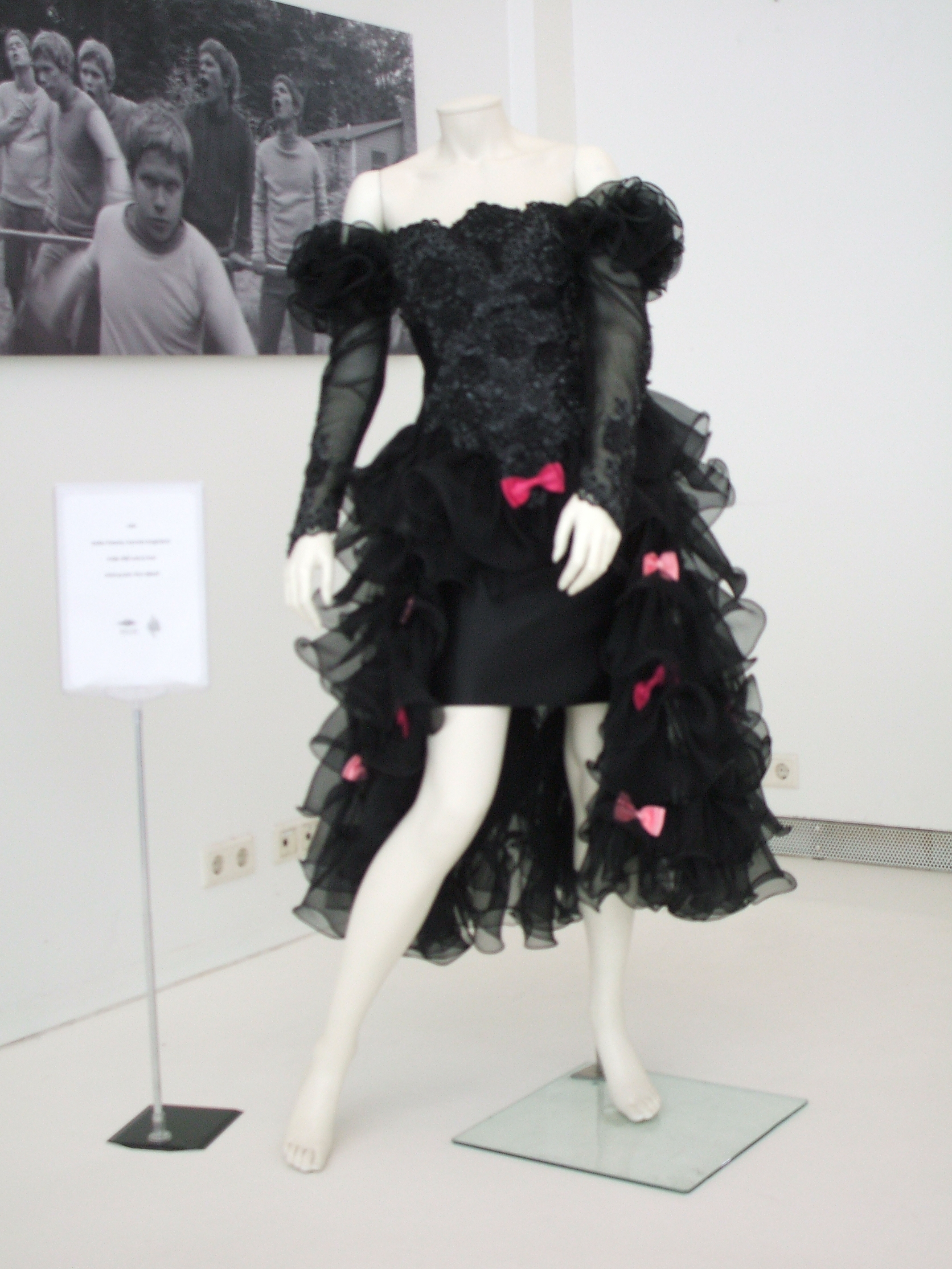 Justine Pelmelay's 1989 Eurovision Song Contest dress at the "May we have your dress, please?!" exposition for benefit of the Sandra Reemer Foundation